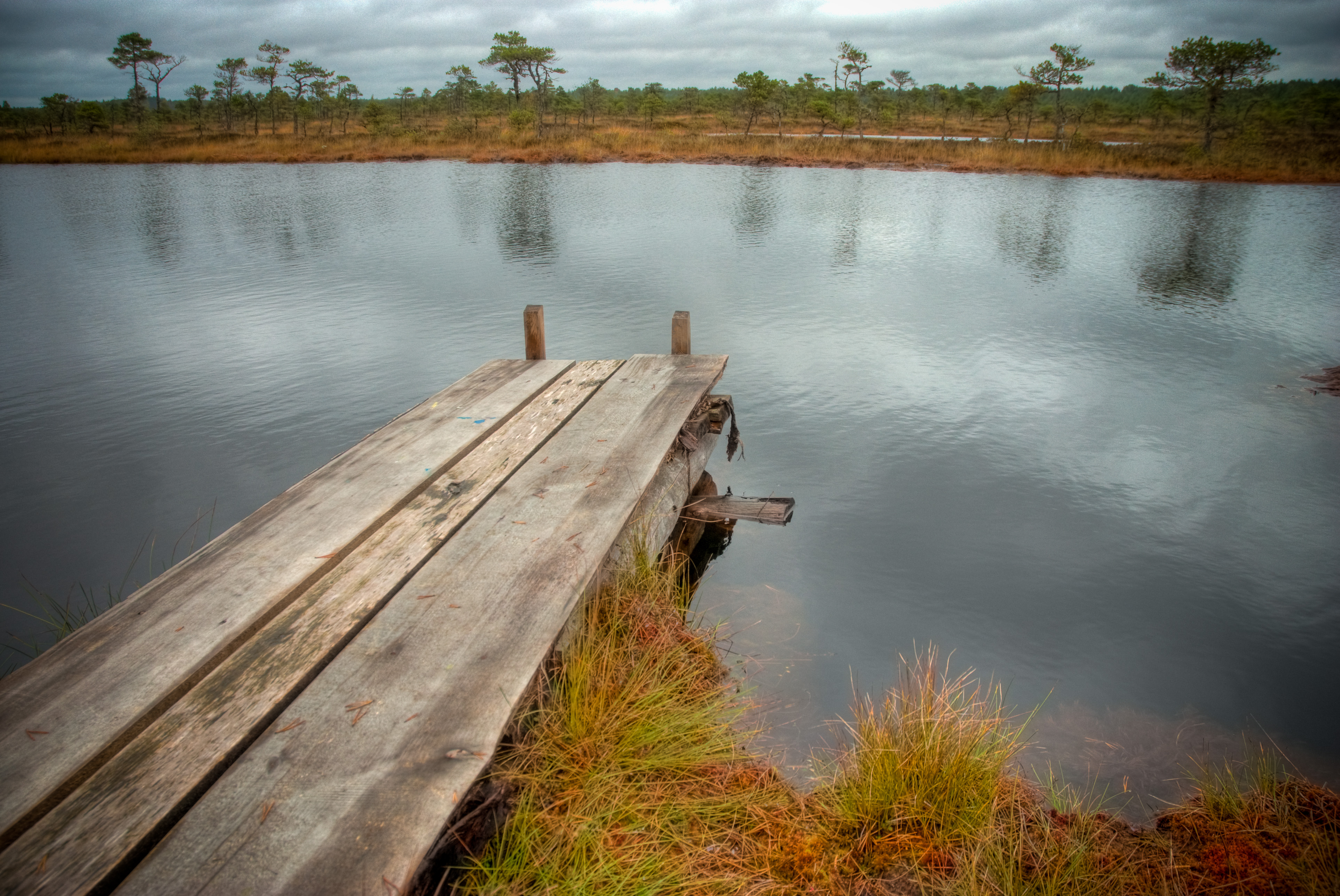 Bog with dock boardwalk, in Soomaa National Park, Estonia.